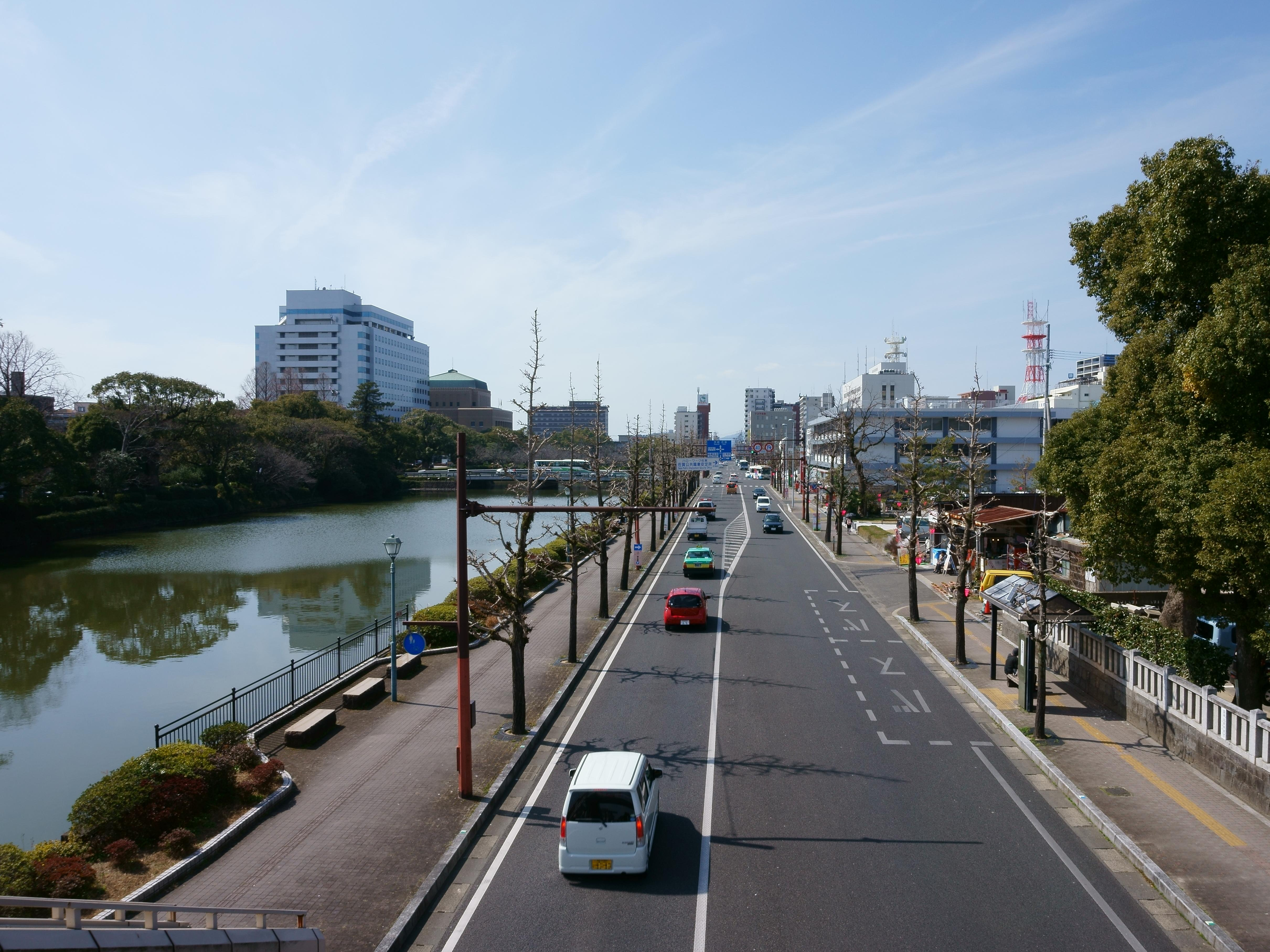 Route 264 "Higashi-ichō-dōri" street in Matsubara, Saga city.